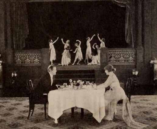 Still from the American drama film The Struggle Everlasting (1918) with E. J. Ratcliffe and Florence Reed, on page 14 of the December 29, 1917 Exhibitors Herald.